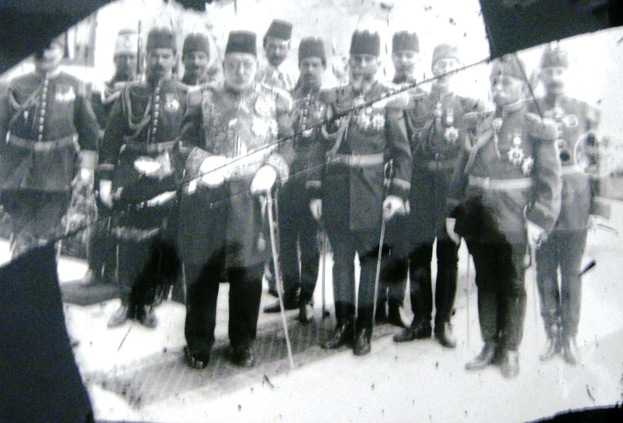 Sultan Mehmed V together with his entourage. Bitola, 1911 (Damaged plate) This media file is produced by Wikipedian in Residence in Category:Wikipedian in Residence at DARM in 2016.